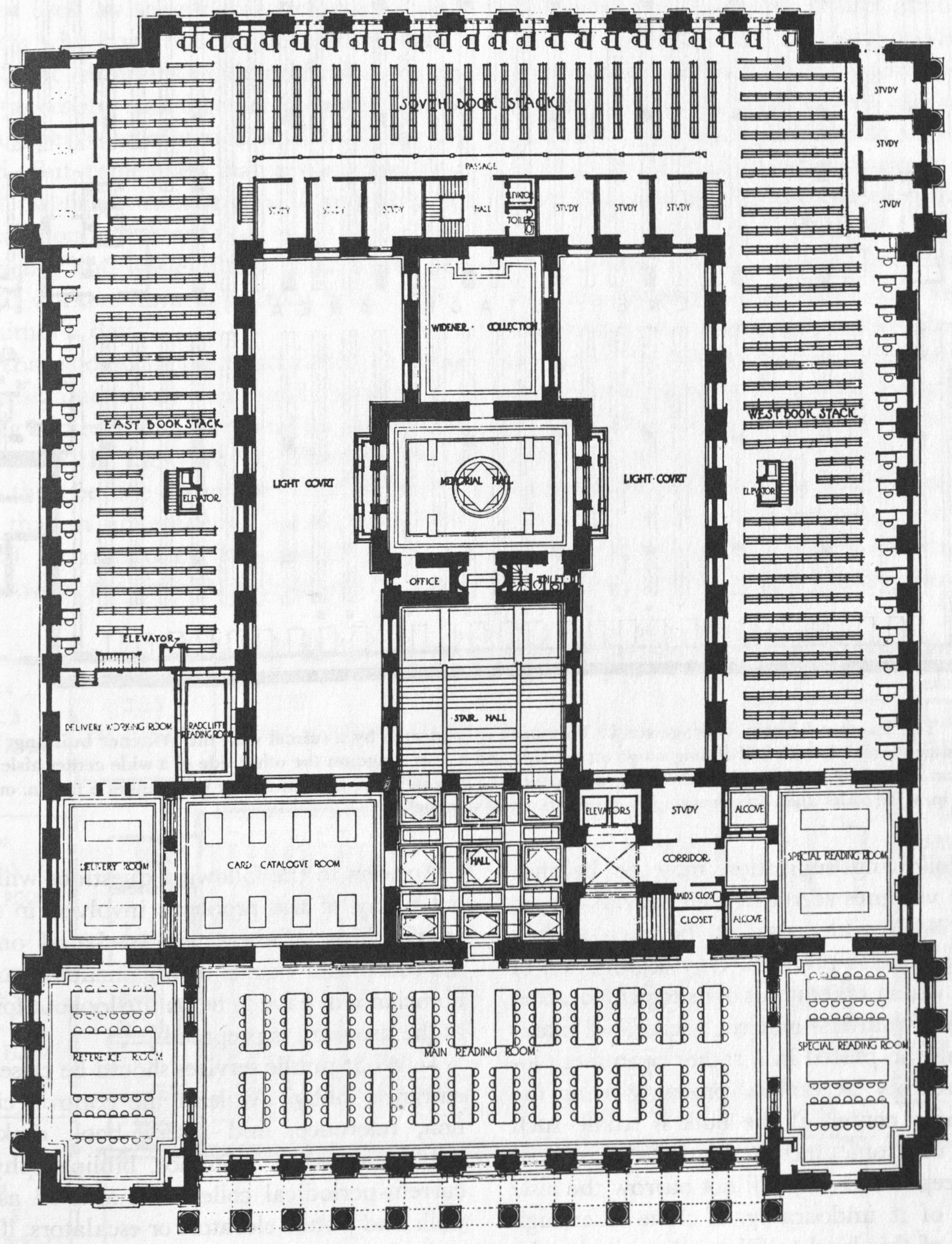 Plan of Second Floor, Harry Elkins Widener Memorial Library, Harvard University, showing one of the ten levels of bookstacks at south (top), east, and west; the Widener Memorial Rooms at center; and main reading room (now Loker Reading Room) at north.